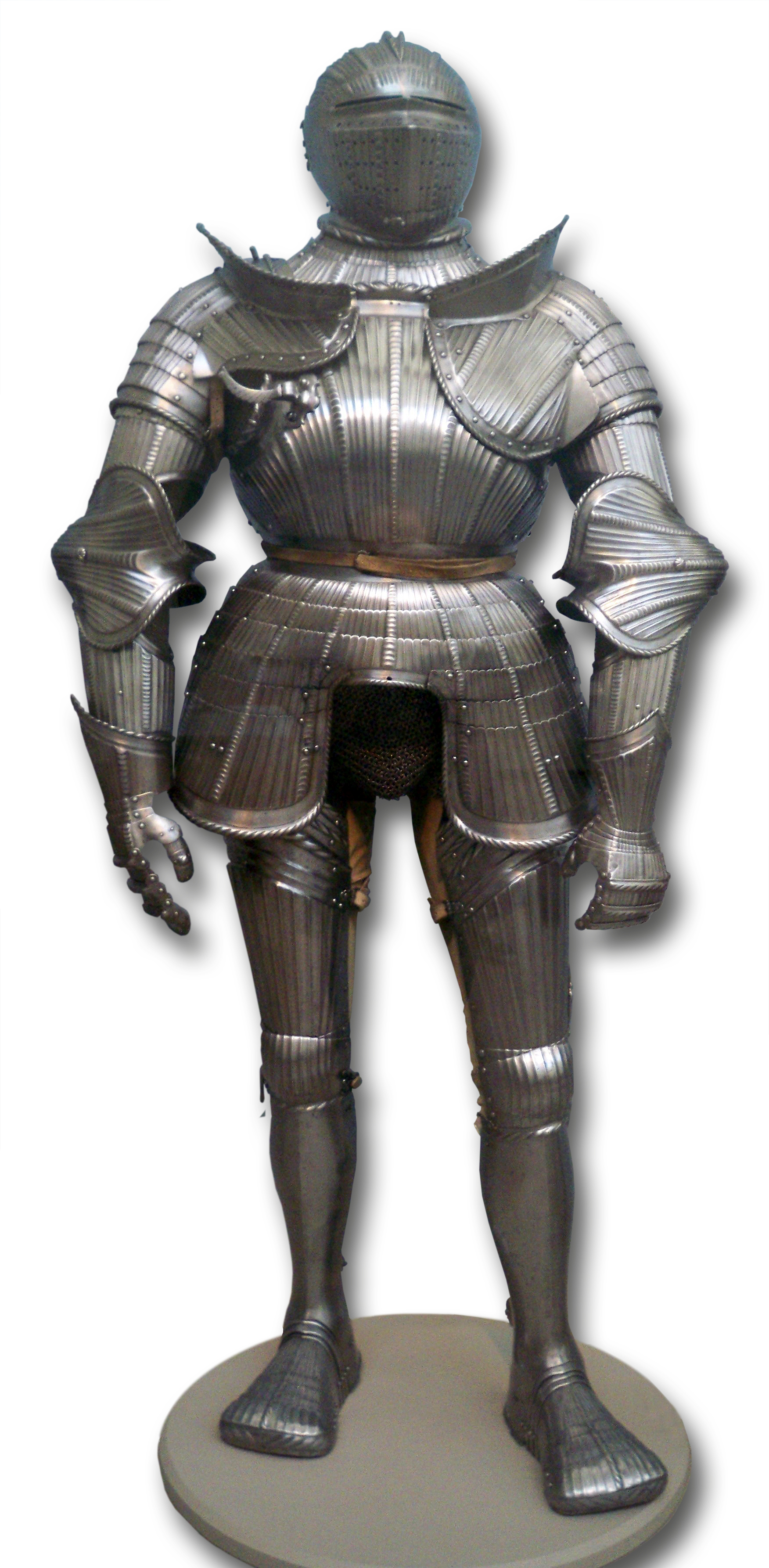 Steel armor, German, 1535, at the Metropolitan Museum of Art.